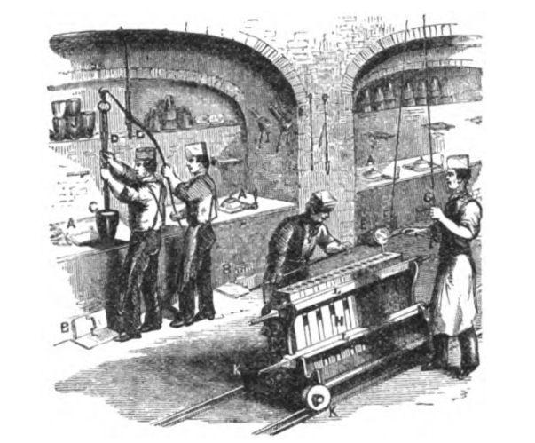 Plate from book "The royal mint: its working, conduct, and operations, fully and practically explained" (1870) by George Frederick Ansell